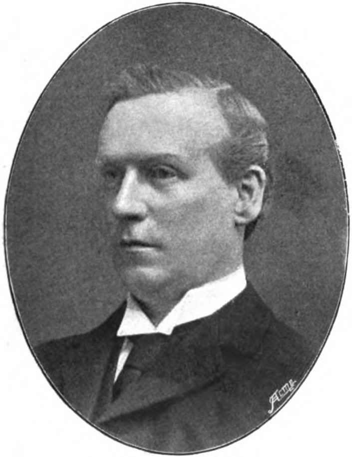 Herbert Asquith Licensing Captioned As { }